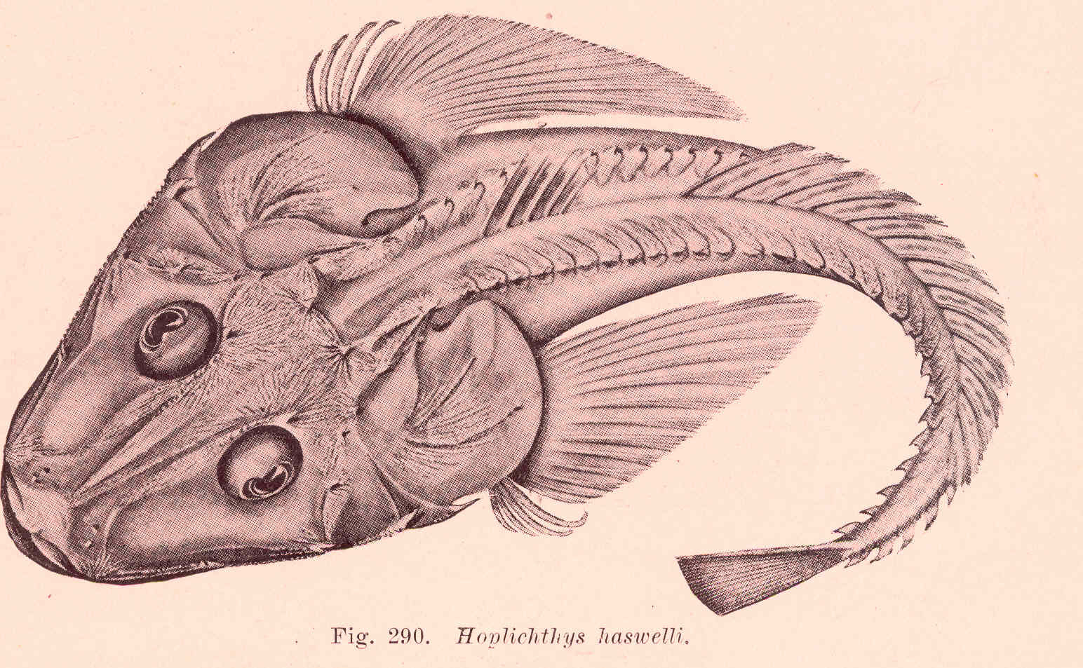 Hoplichthys haswelli Subject: Hoplichthys, Hoplichthyidae Tag: Fish